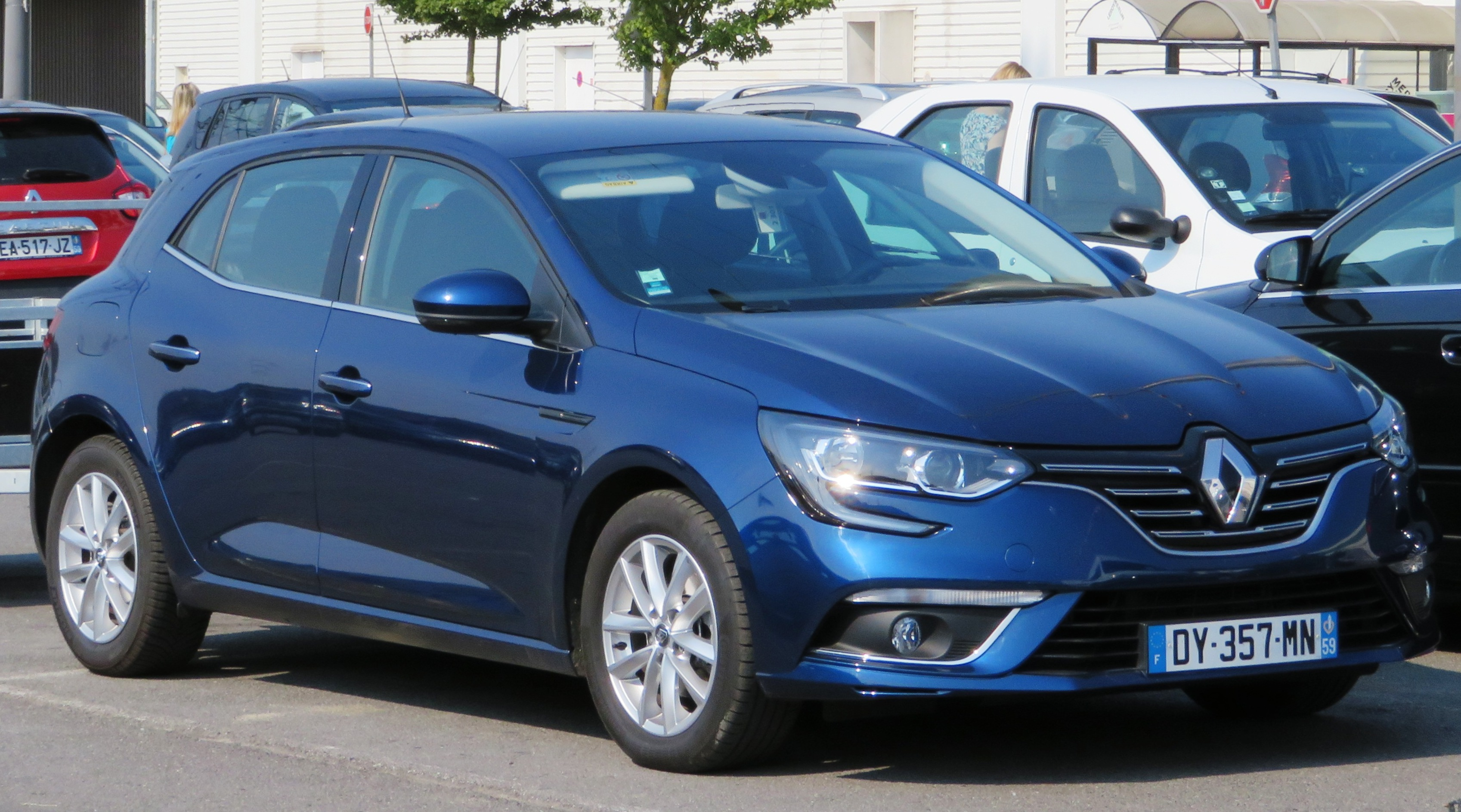 Renault Mégane IV shortly after launch